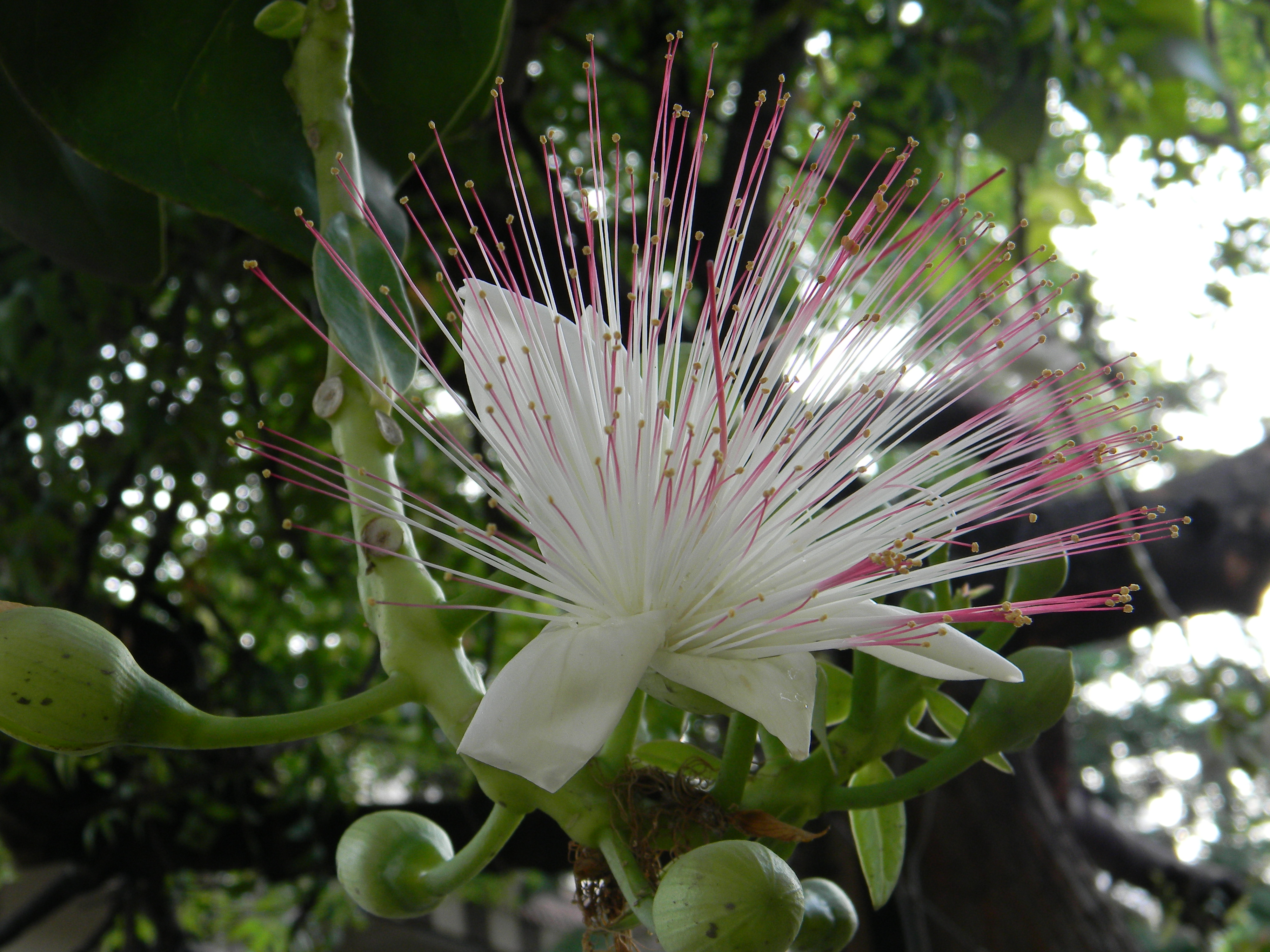 Medium-sized fragrant white four-petalled flower filled with numerous stamens tinged with purplish pink; borne on short erect racemes; the flower opens in the evening and fades in the morning.